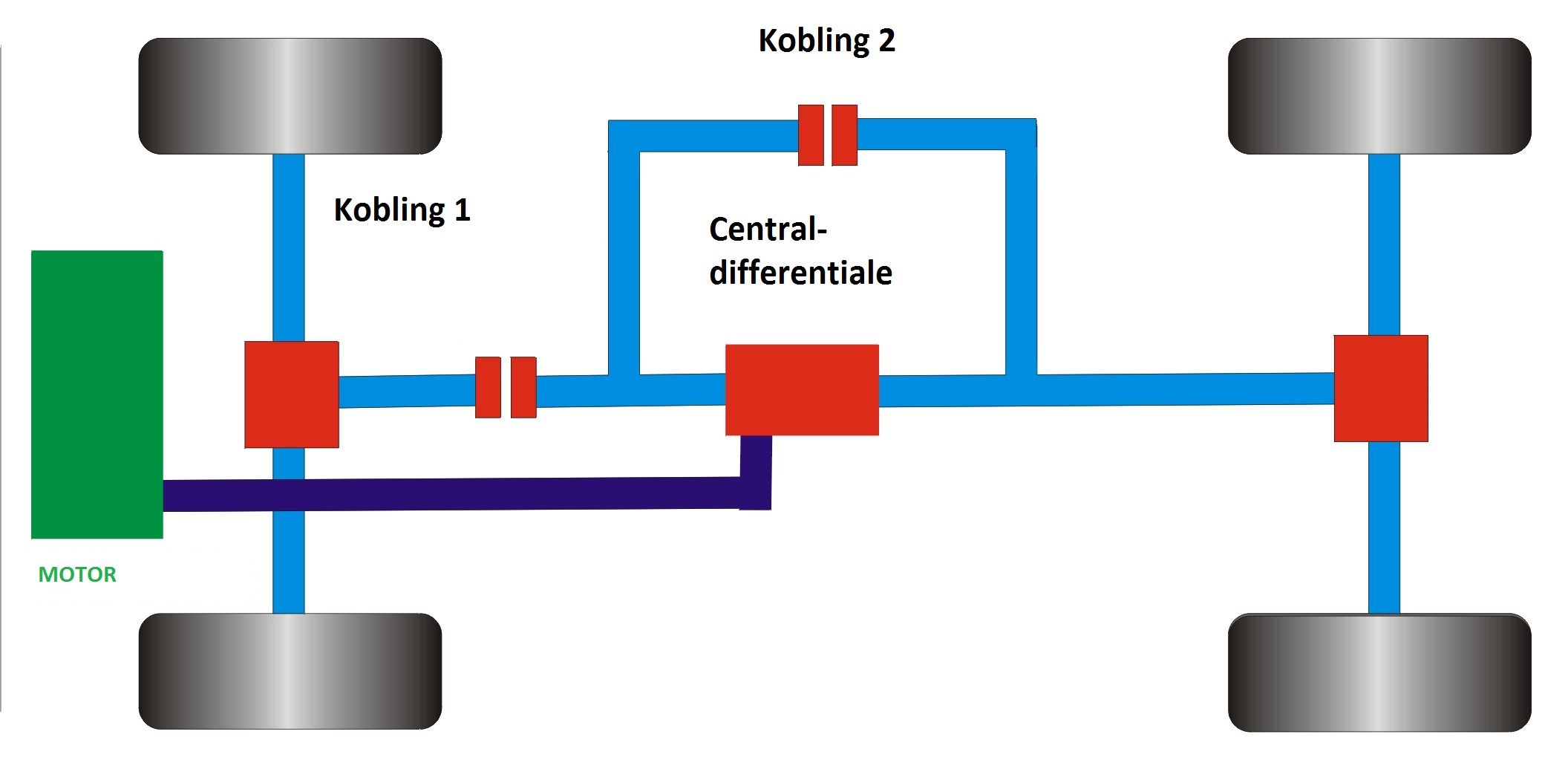 Diagram in Danish of All-wheel drive 4Matic of Mercedes-Benz W124. Translated version of File:Allrad 4Matic 124.jpg.